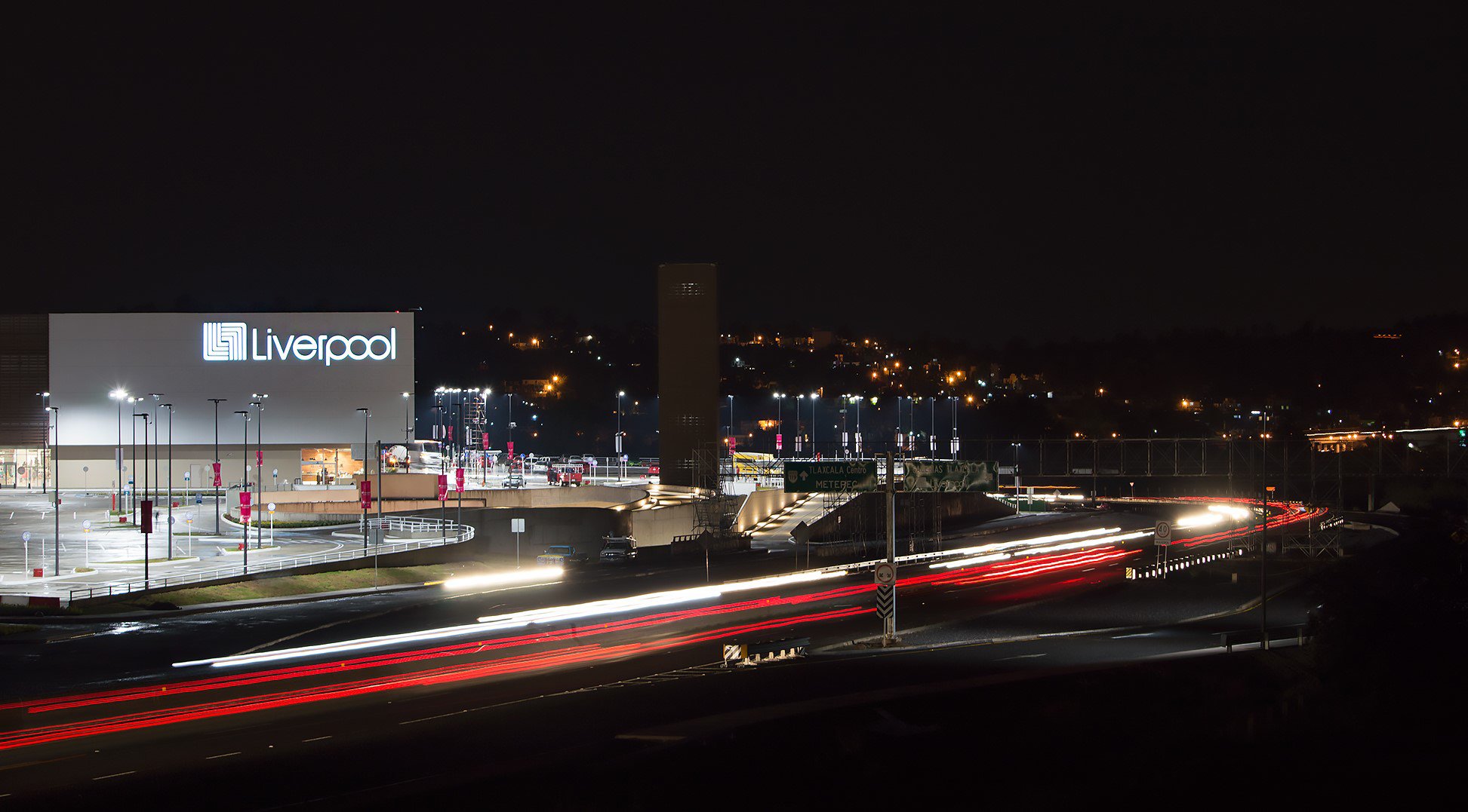 Periférico de la ciudad de Tlaxcala